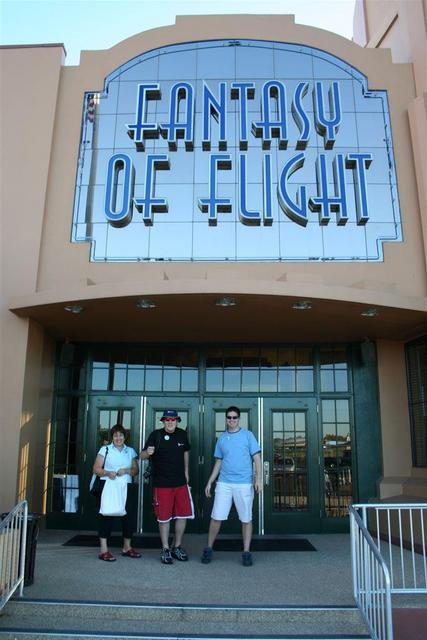 Fantasy of Flight Main Entrance Photo by Steve Cole - see more: Fantasy of Flight Trip Gallery from 2006 Fantasy of Flight Trip Gallery from 2004 Official Link Fantasy of Flight